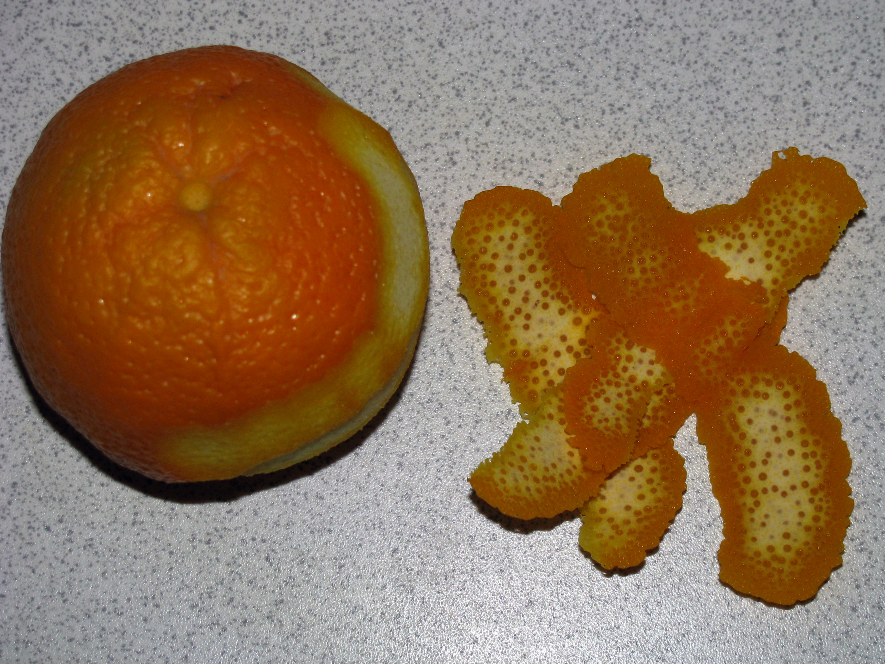 Fresh orange peel